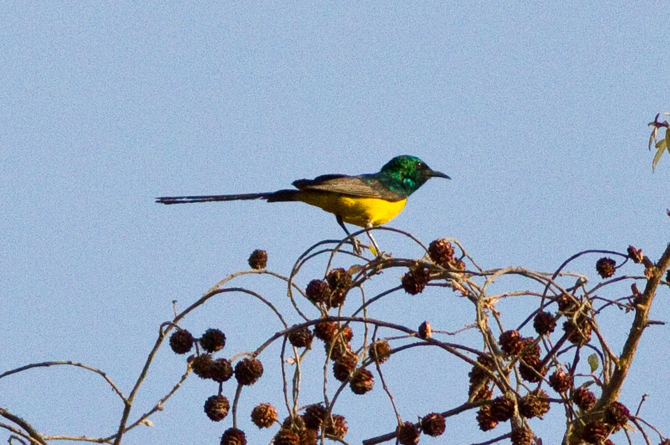 Benoua National Park